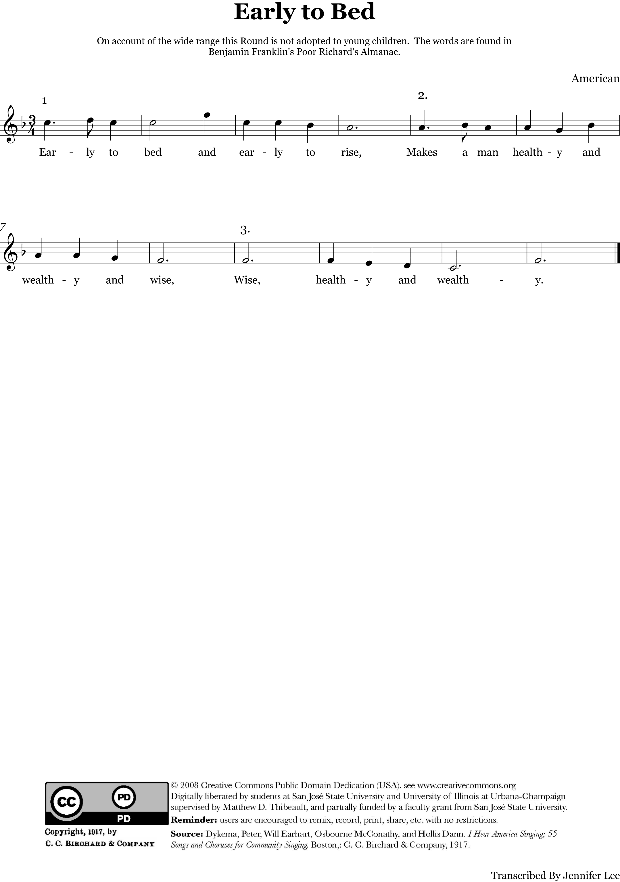 Early to Bed